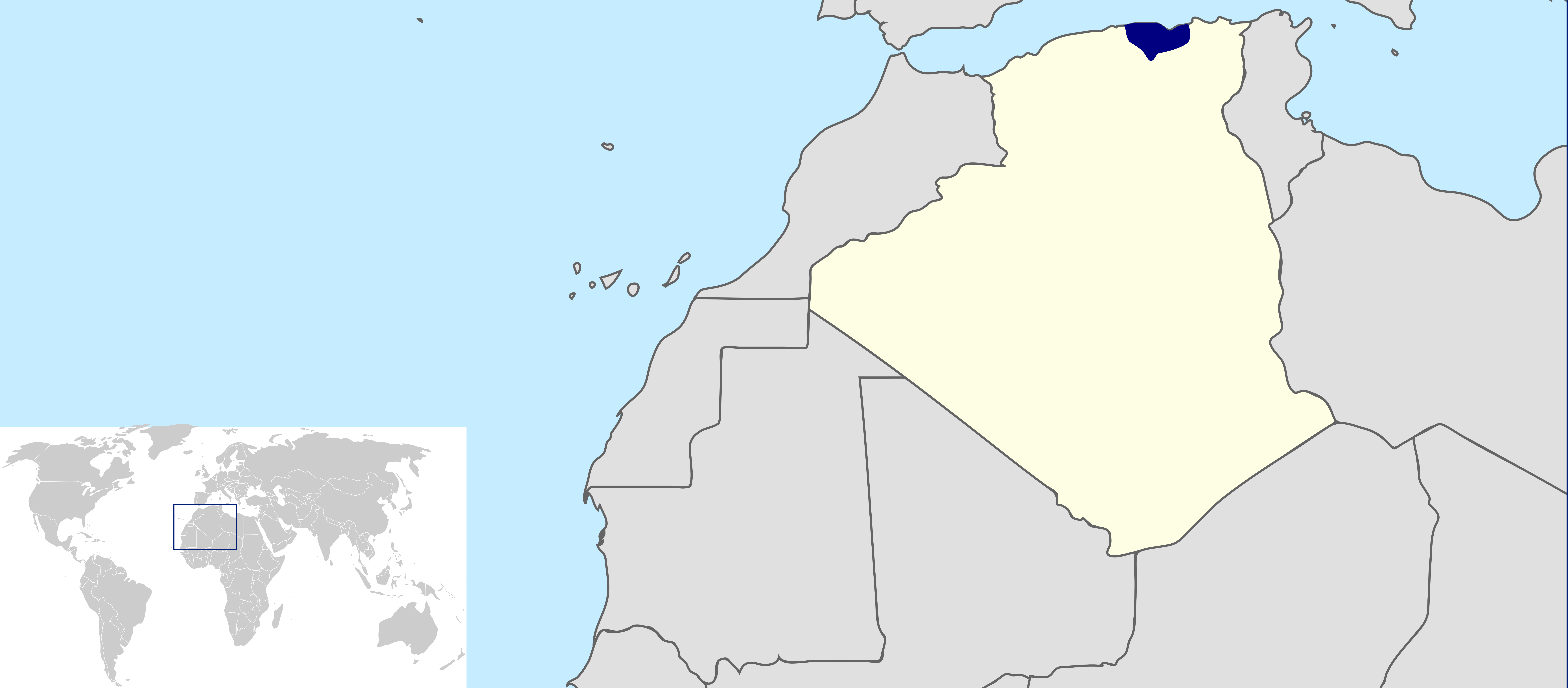 Kabylie Location